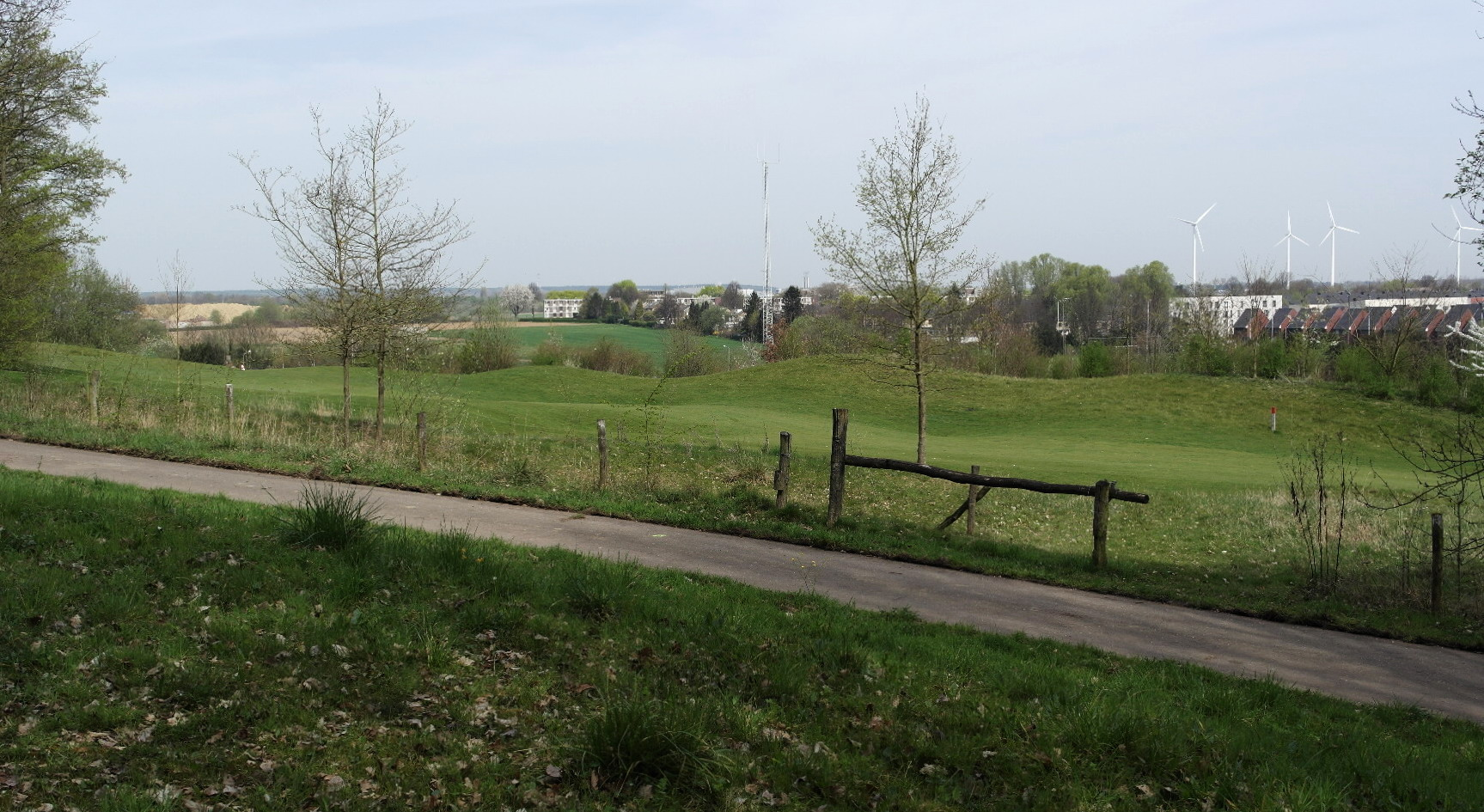 Maastricht, the Netherlands. View of the golf course International Golf Maastricht, home of Golf Club Maastricht, on Dousberg hill on the western edge of Maastricht, situated partly across the Belgian border.